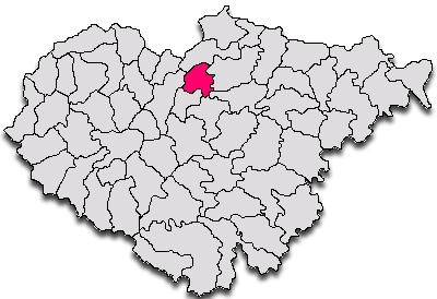 Map Salaj County Romania